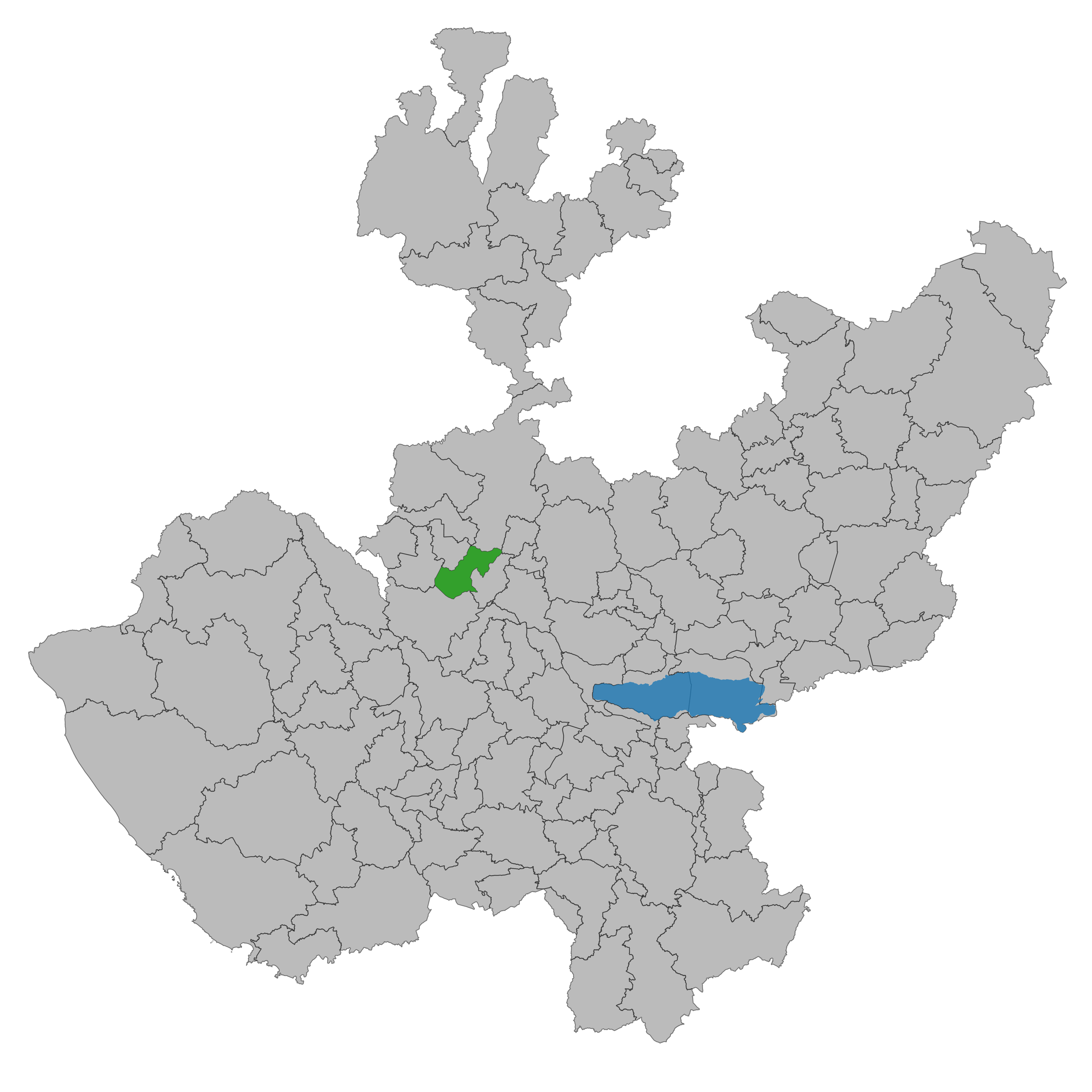 Municipality of Jalisco. Prepared with the software QGIS version 2.8.2 Wien & with information of SCINCE 2010 version 05/2013